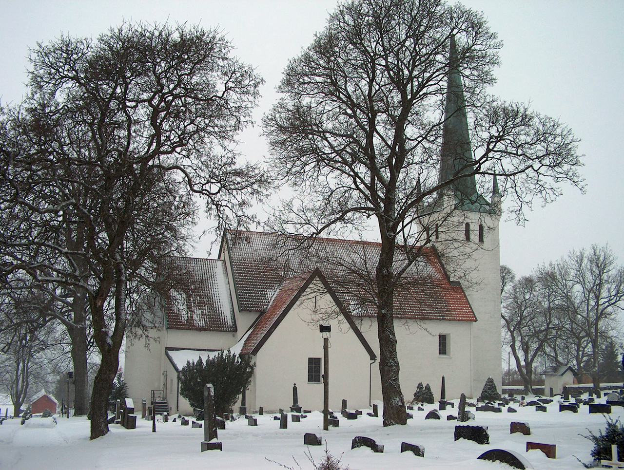 Norderhov kirke (Norderhov church, Ringerike, Buskerud, Norway), the northern facade. Photo: T. Bjornstad, 2006